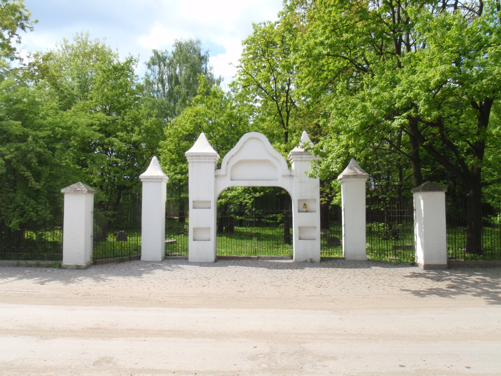 Grodzisk Mazowiecki - Jewish cemetery